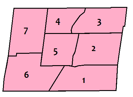 Map of Newmarket, Ontario's wards